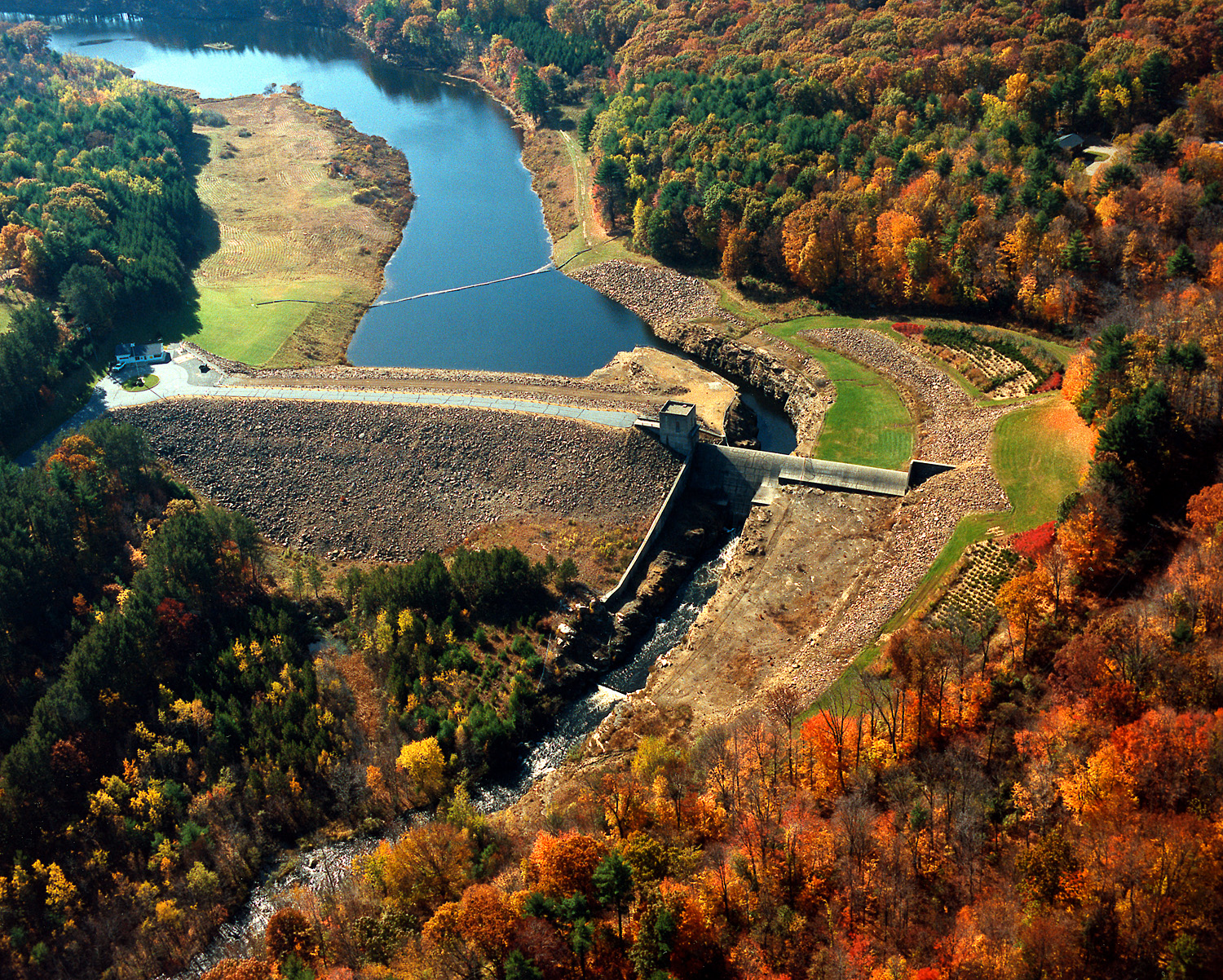 Westville Lake and Dam on the Quinebaug River near Southbridge, Worcester County, Massachusetts, USA. The U.S. Army Corps of Engineers constructed the dam for flood control on the river.